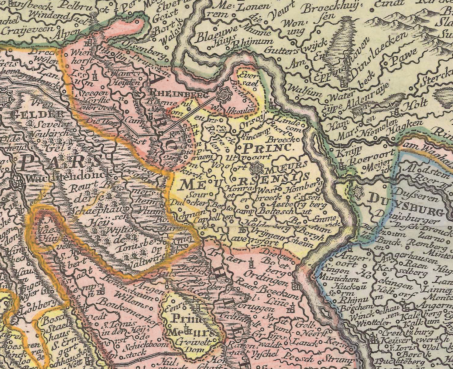 Map of the United Duchies of Jülich-Cleve-Berg, County of Moers and County of Zutphen